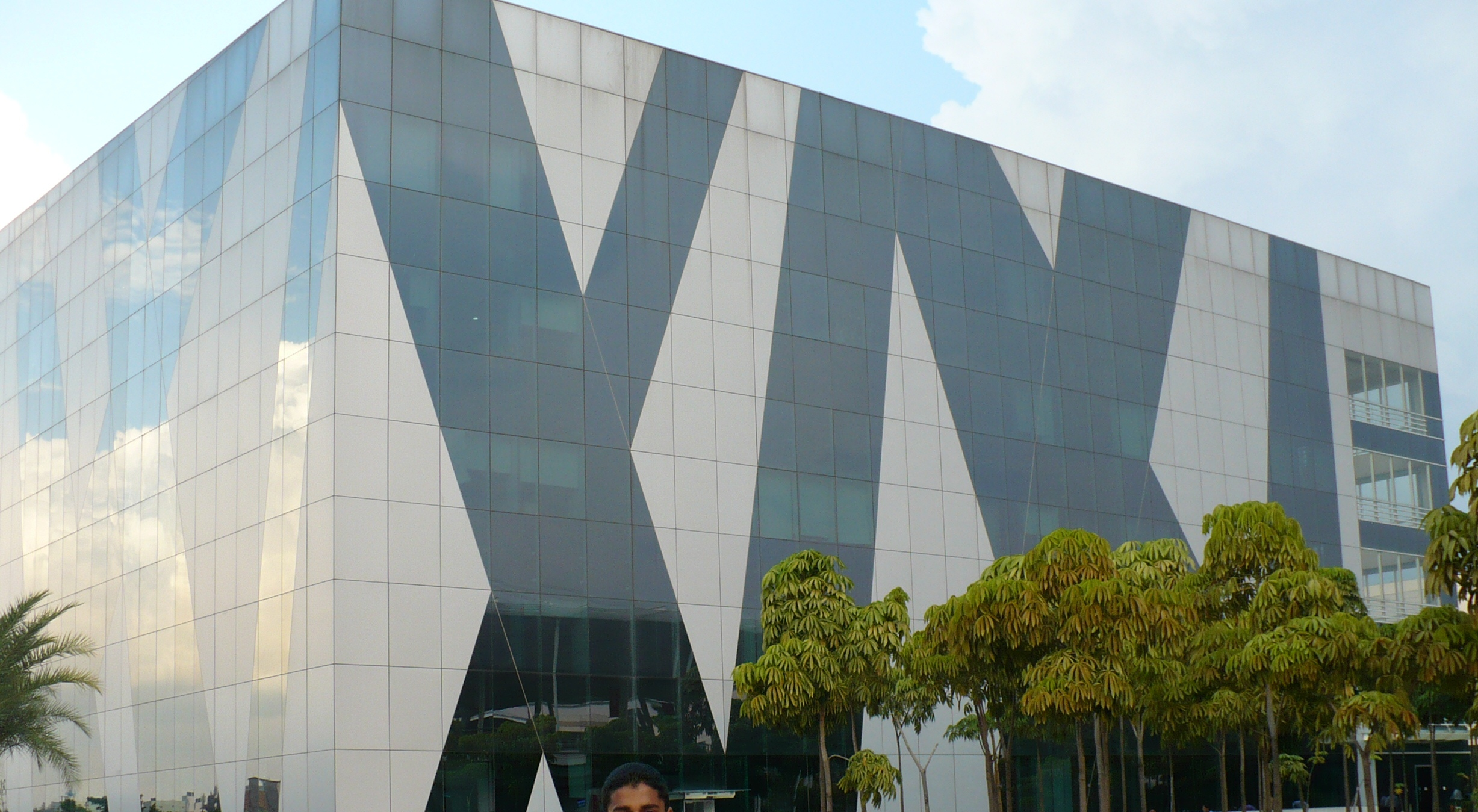 By Nikhil Kulkarni